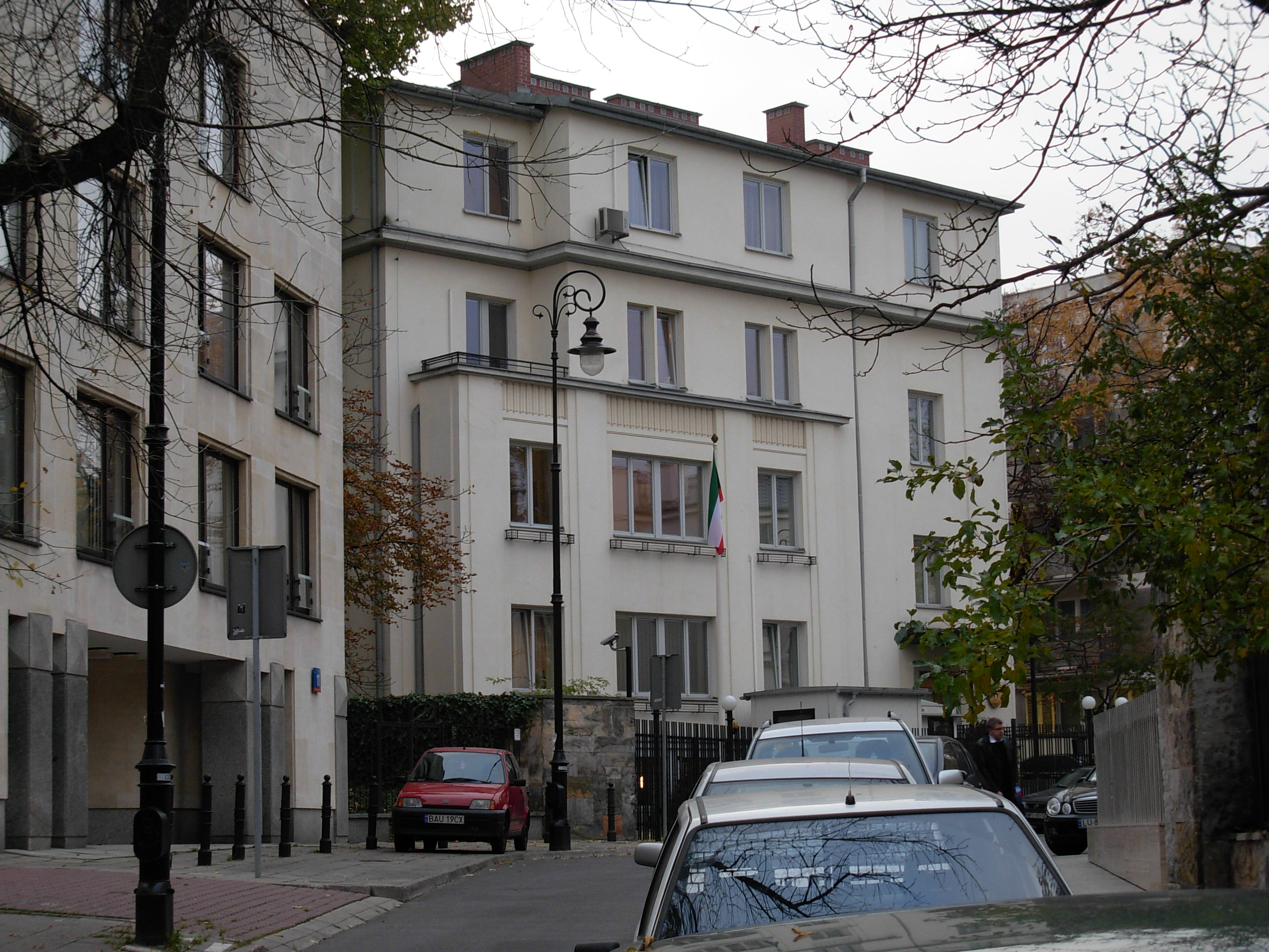 Embassy of Kuwait in Warsaw